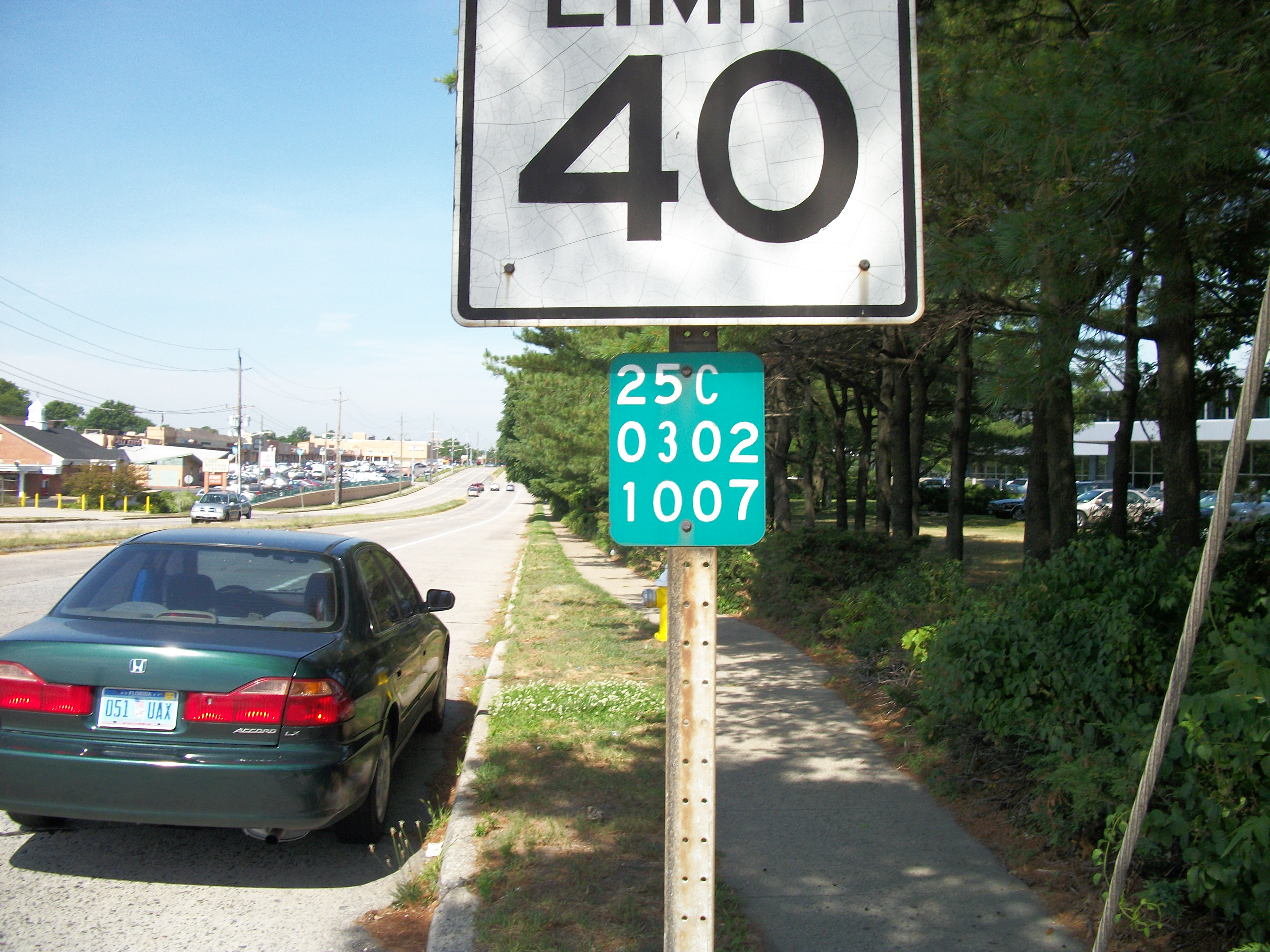 The first New York State Route 25C 10th mile marker westbound on Union Turnpike west of the intersection of New Hyde Park Road in North New Hyde Park, New York. This was made after NY 25C was supposedly decommissioned by NYSDOT, which has convinced me that they want it back, or wanted it back during the 1970's and 1980's.